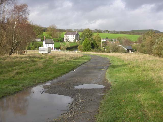 Station site at Ystrad Meurig The station was named Strata Florida after the nearby abbey. Here the Manchester and Milford Railway, after over 3km in a straight line over Cors Caron, turned sharply to the left and headed for Aberystwyth. The "main line" was intended to turn right to head for the Cambrian Mountains and Llanidloes, but was never built. The line is now a nature trail.